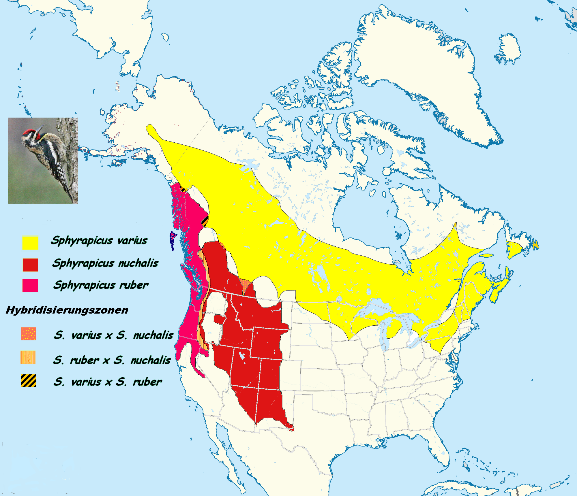 Sphyrapicus varius Superspecies - Distribution and zones of Hybridisation